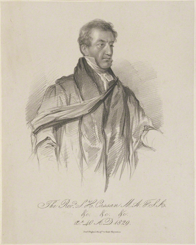 Lithograph portrait of Stephen Hyde Cassan (1789–1841), English Anglican priest and ecclesiastical biographer.